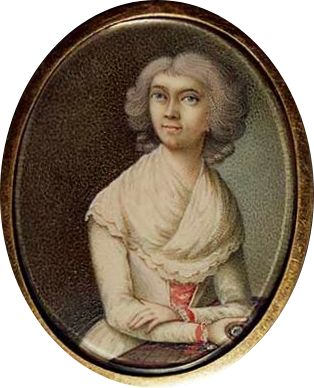 An unauthenticated miniature of Anna Haydn attributed to Ludwig Guttenbrunn (Burgenländisches Landesmuseum, I.N. KS 1247)